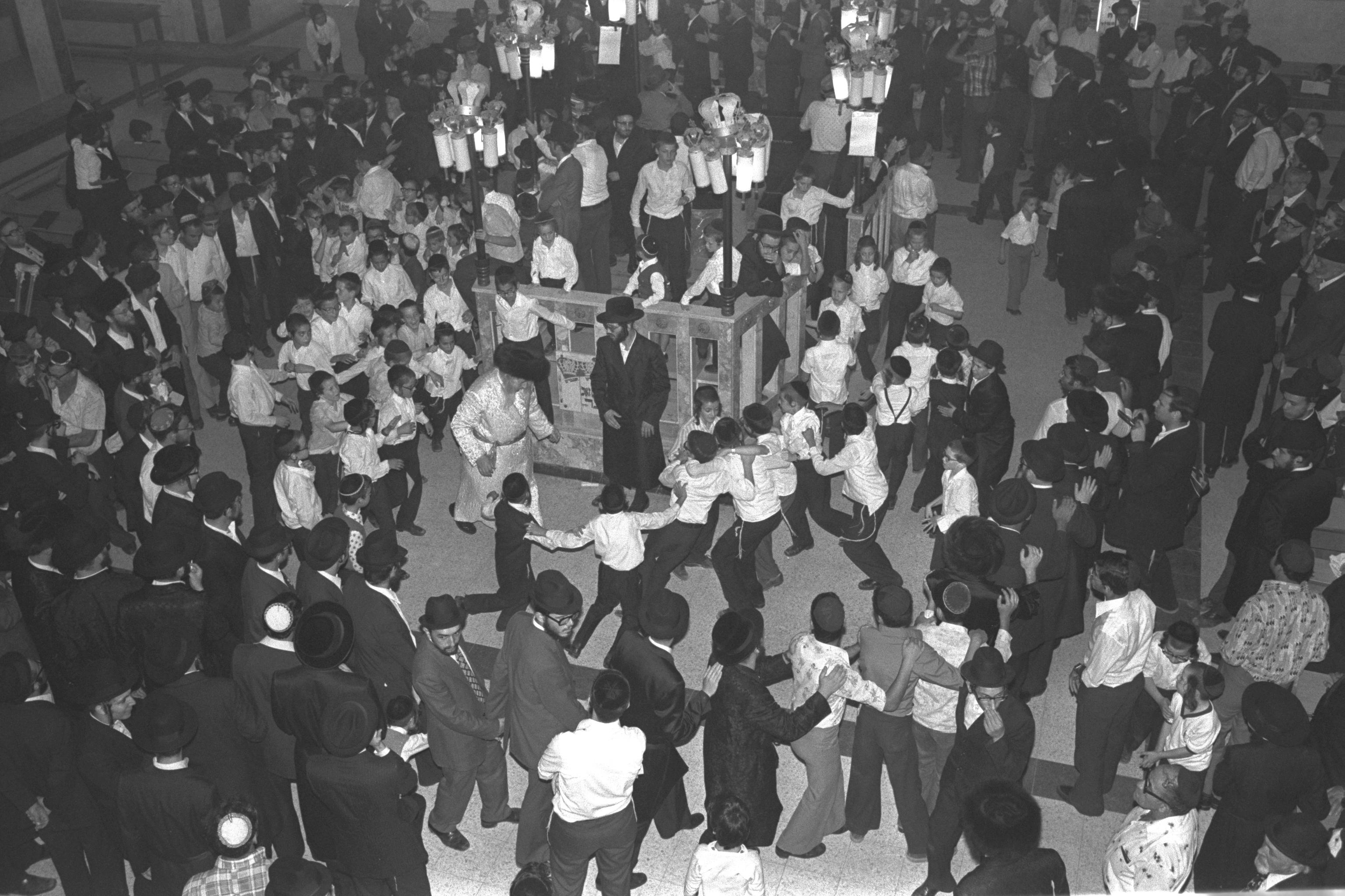 The rabbi of Kalib and his followers celebrate “Simchat Beit Hashoeva” during Sukkoth in Rishon Lezion. GPO photo by Milner Moshe.